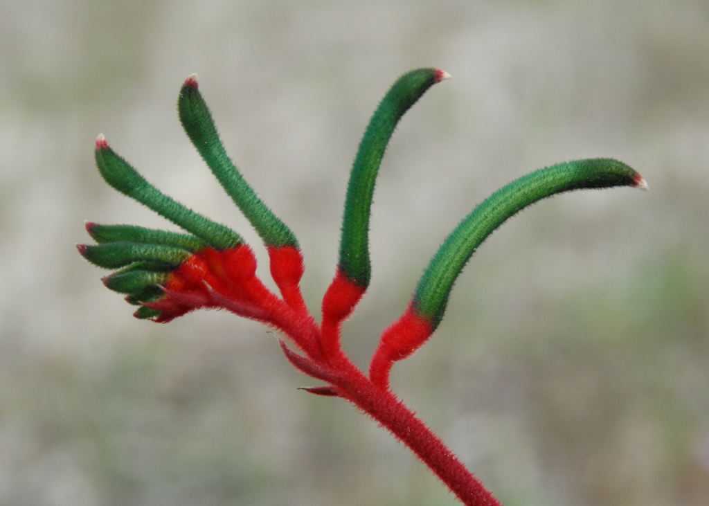 Anigozanthos manglesii photographed near a shopping centre in Eaton, Western Australia.